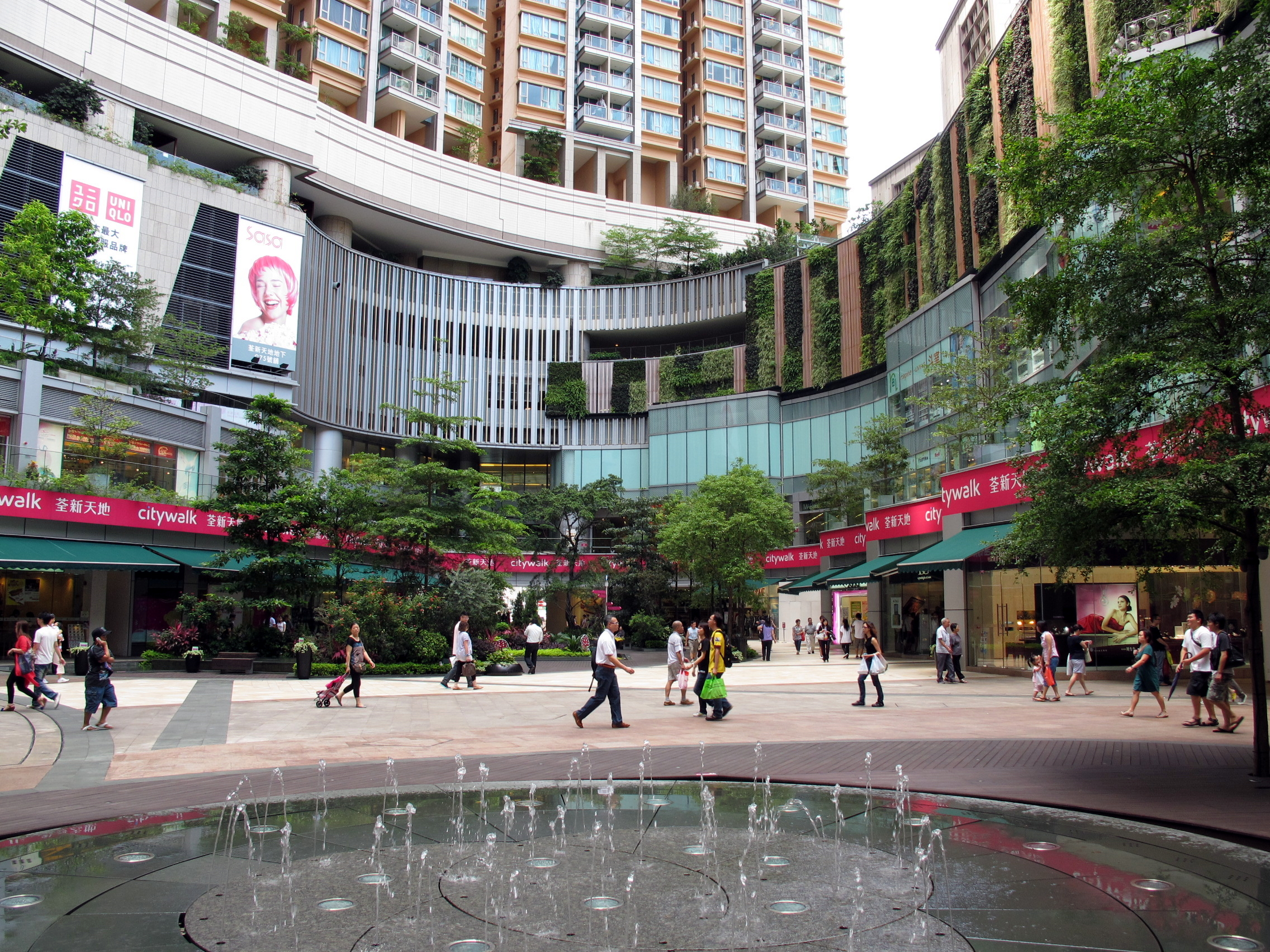 HK Citywalk Public Open Space Fountain